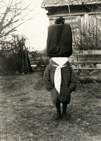 Mārtiņi ķekatnieks "sieve", Mazirbe, 1928.